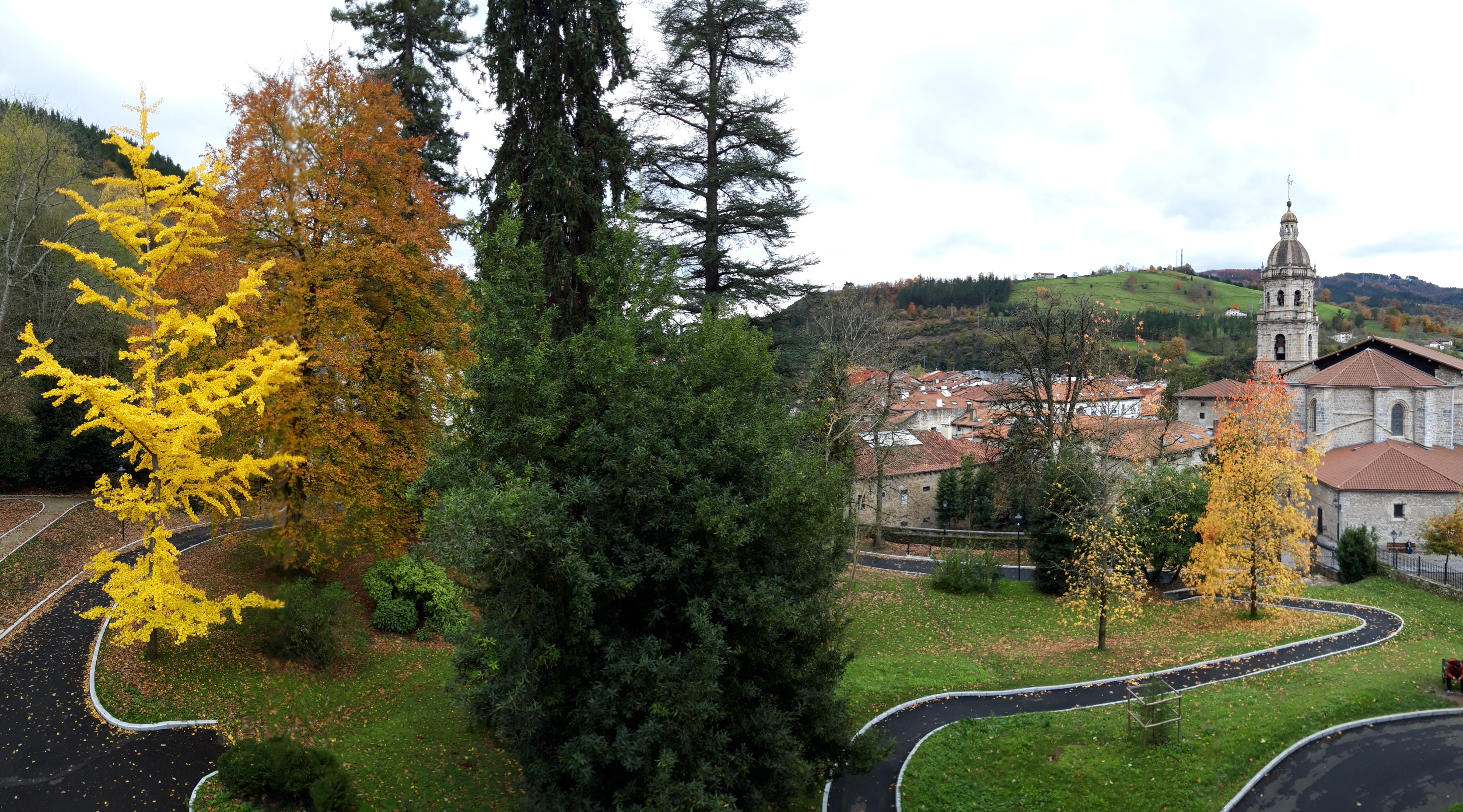 Garden of Errekalde palace, actual headquarters of Laboratorium Bergara museum. Ahead, you can see the old part of Bergara.